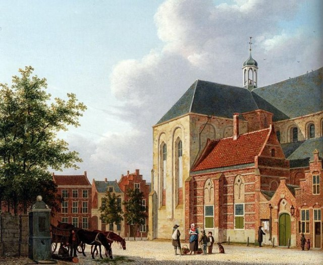 A view of the Sint Jan's church in Utrecht; 52 x 41.5 cm (20.47" x 16.34") Private collection